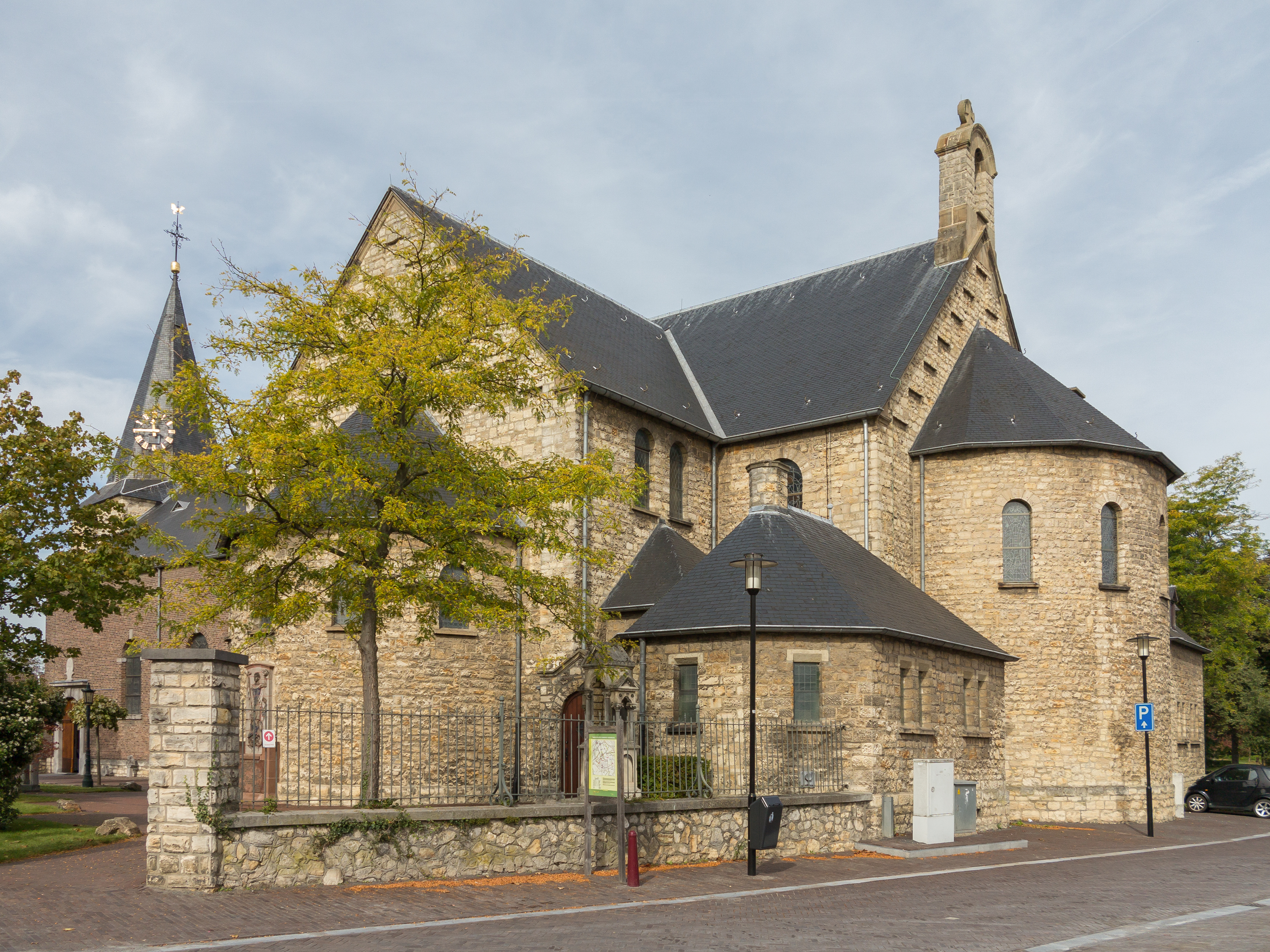 Voerendaal, church: de Sint Laurentiuskerk